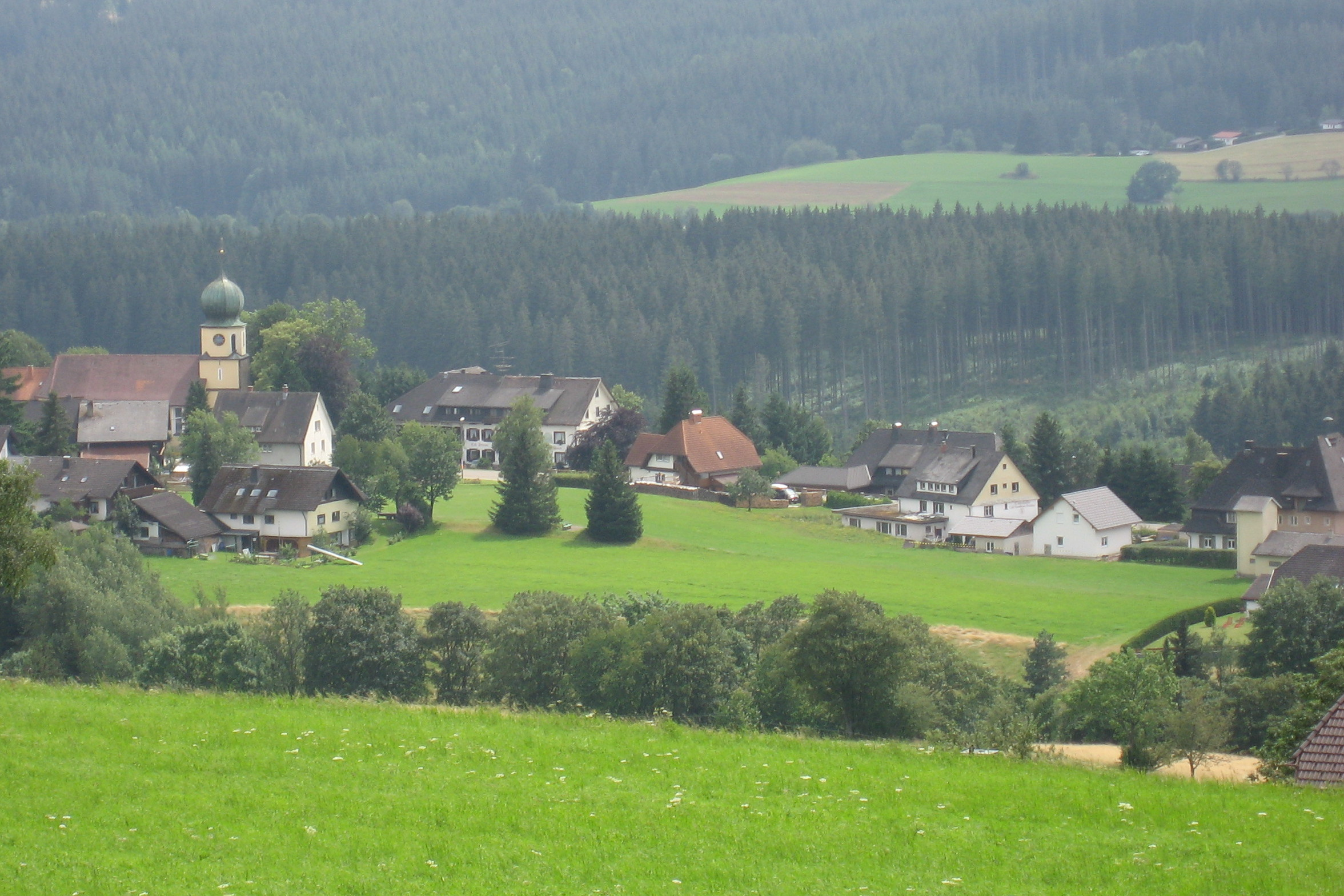 Village of Kappel, part of the municipality of Lenzkirch, Baden-Württemberg, Germany, from the north, near the Franzoesiche Kreuz on the Schwarzwald-Querweg Freiburg-Bodensee long-distance footpath.